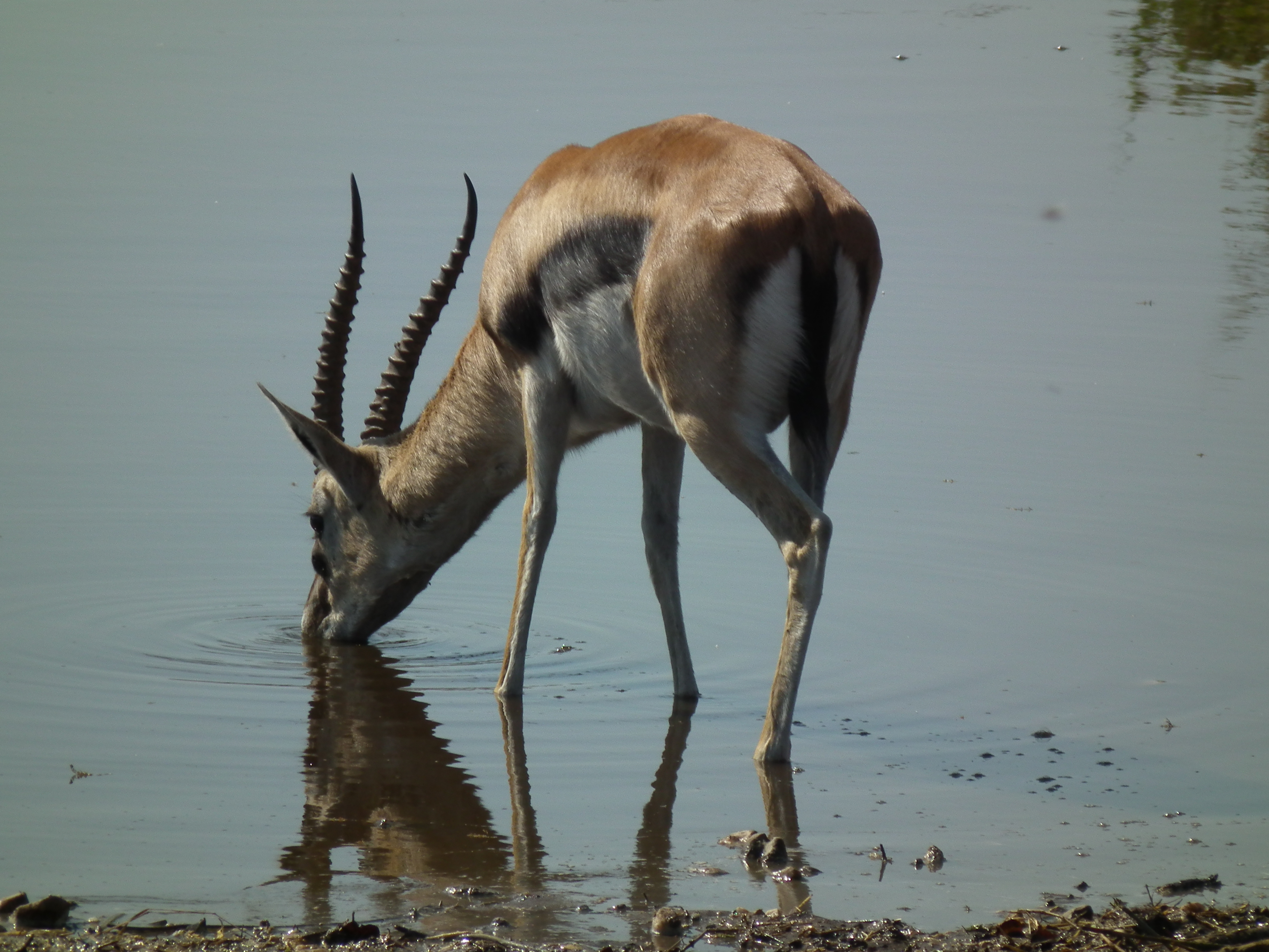 Thomson's Gazelle, Gazella thomsonii, picture taken in Tanzania